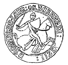 Bernard Ezi IV (death 1358)